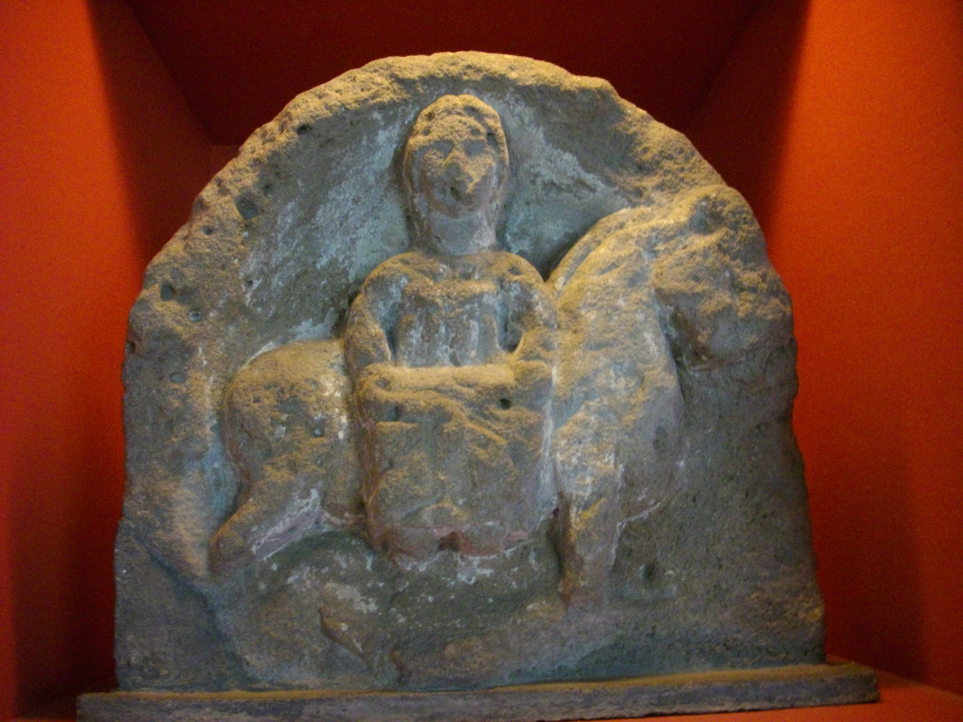 Sculpture of Épona ; 2nd, 3rd-century ; sandstone ; found in Le Hérapel site (Cocheren, Moselle, France) ; kept in Metz museum